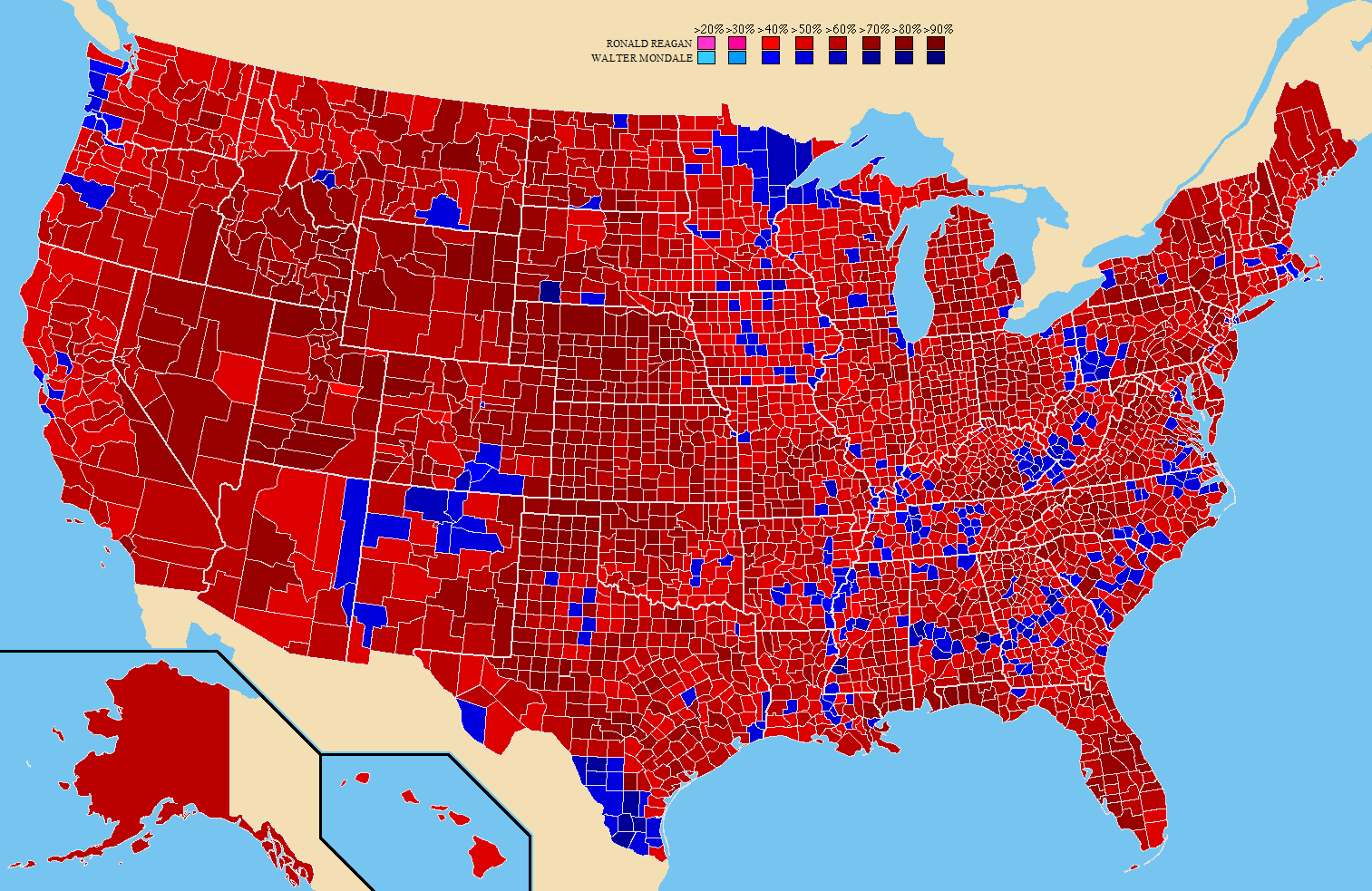 Map showing the results by county of the 1984 United States presidential election specifically identifying the percentage recieved by the winning candidate in each county.